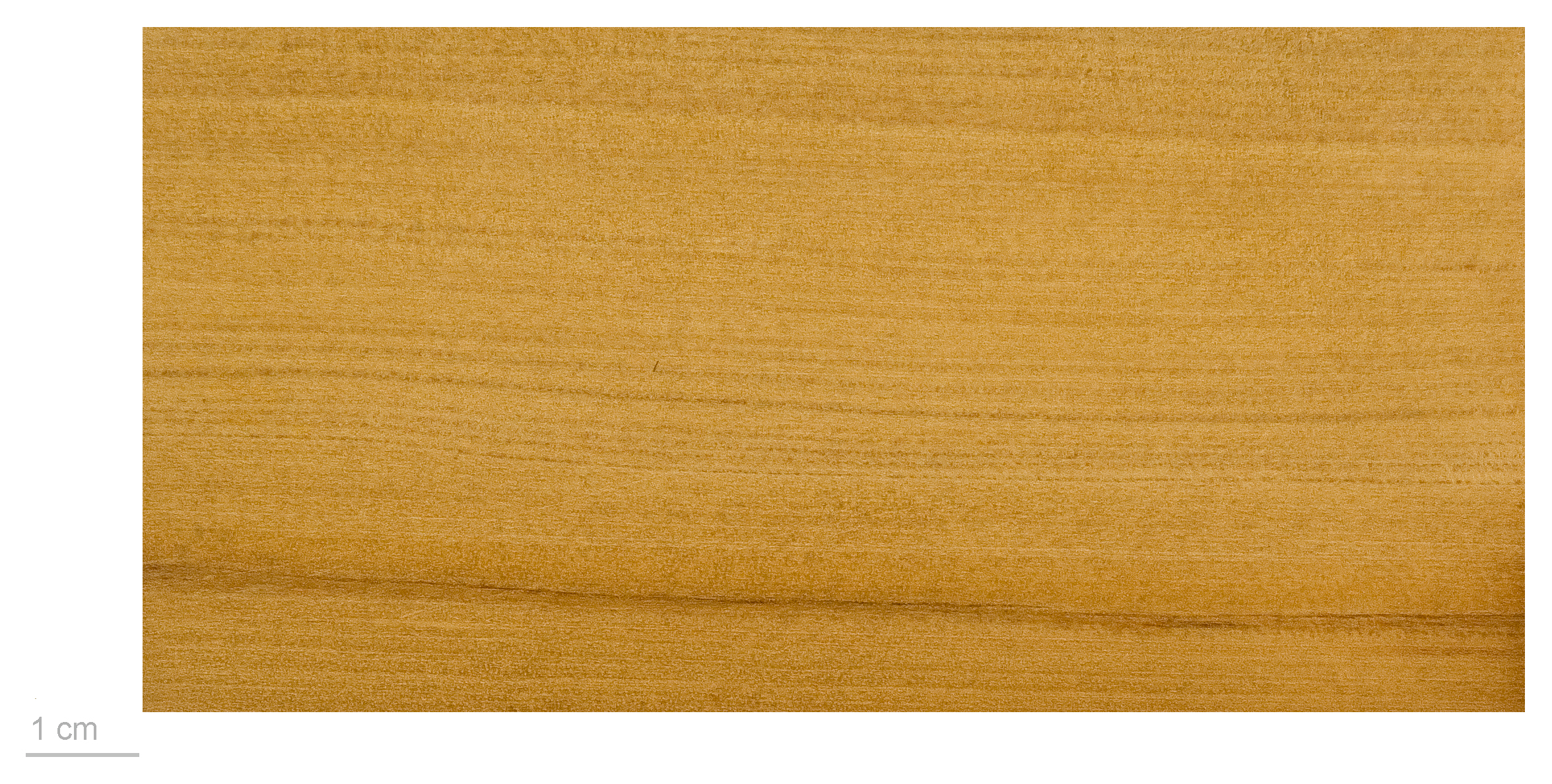 Araucaria subulata, wood